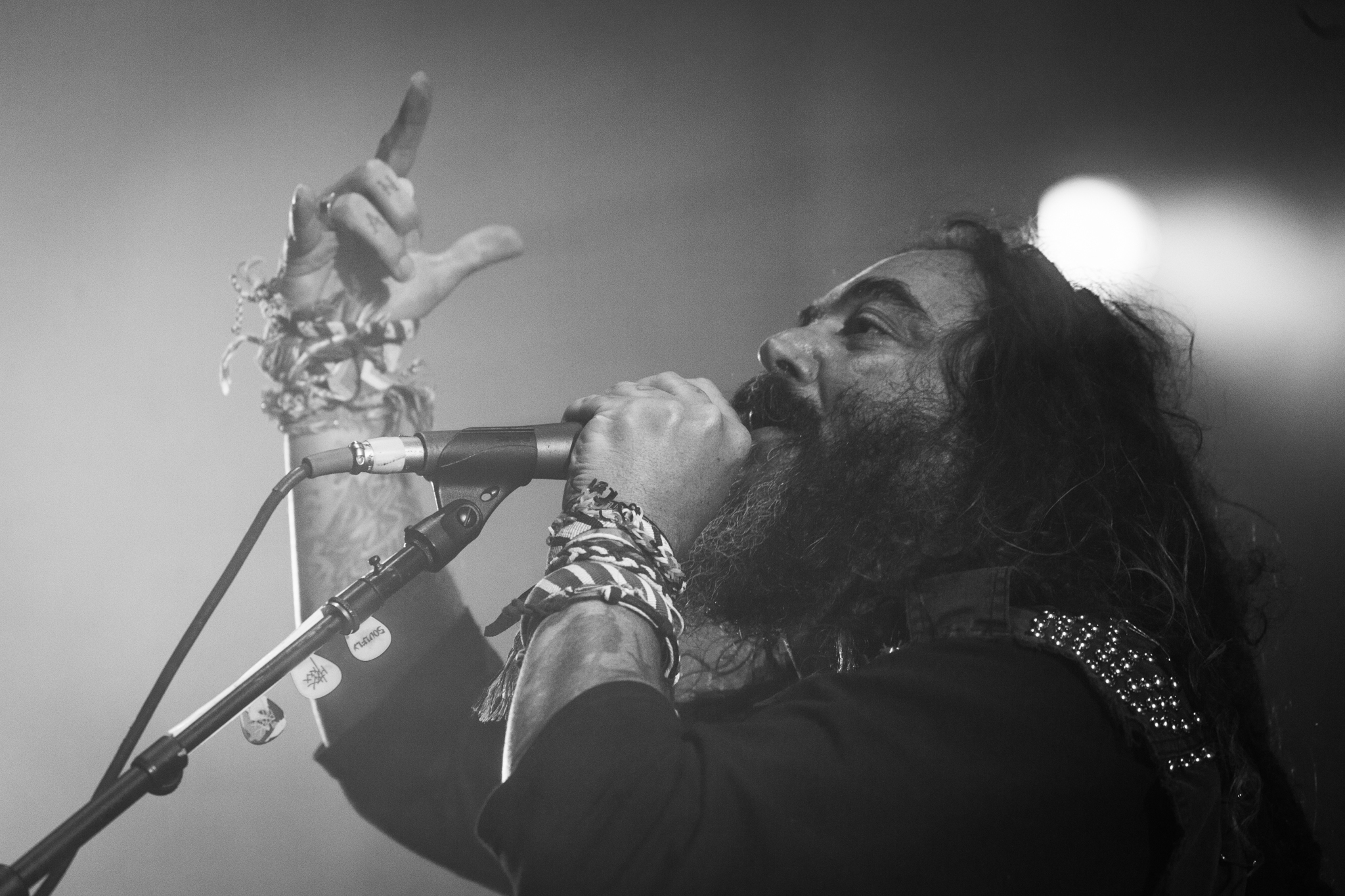 Soulfly performing at 70.000 tons of metal, january 2015